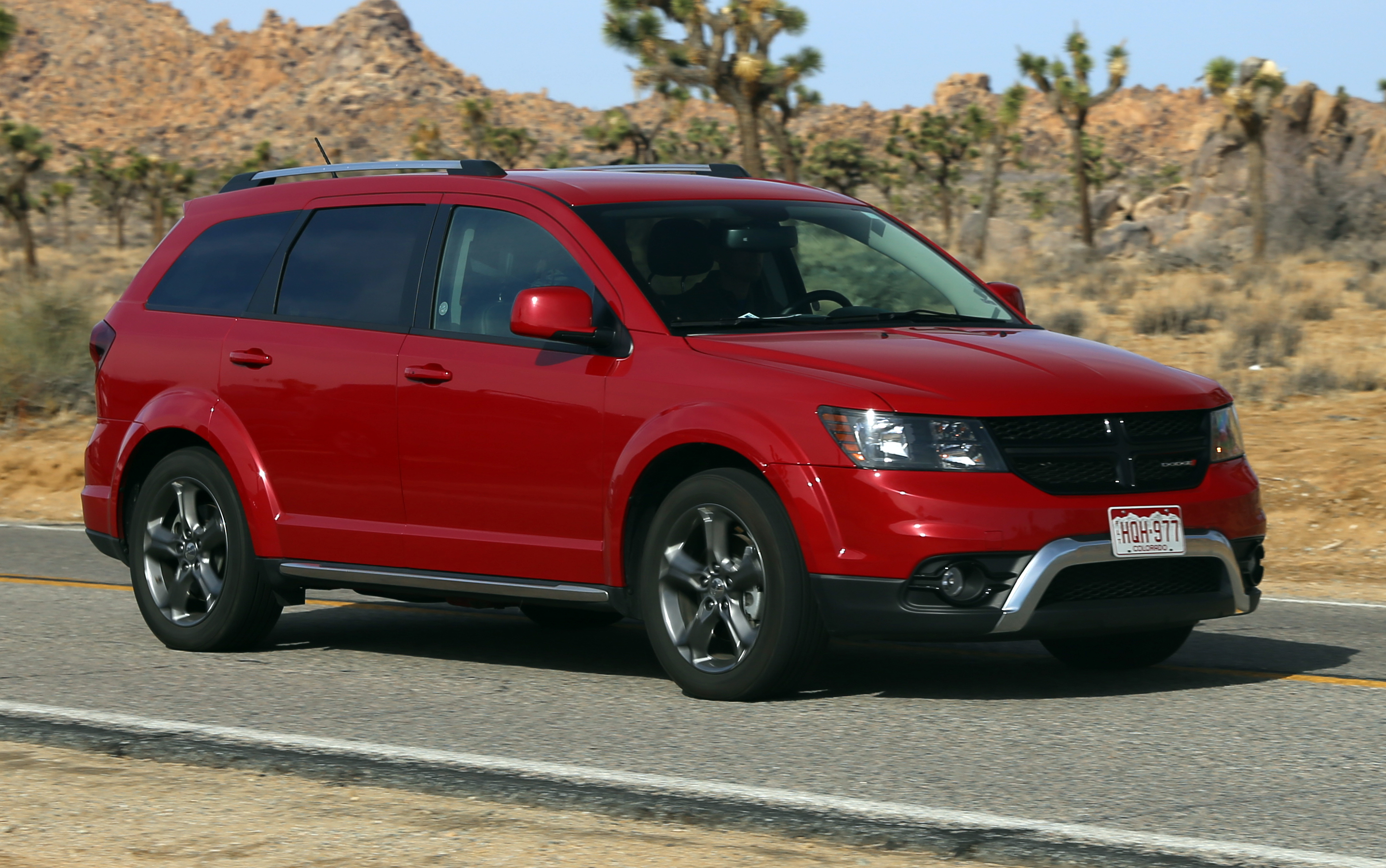 A 2017 Dodge Journey Crossroad in Joshua Tree National Park in California.